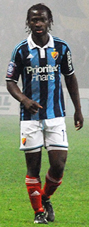 Amadou Jawo (cropped version)